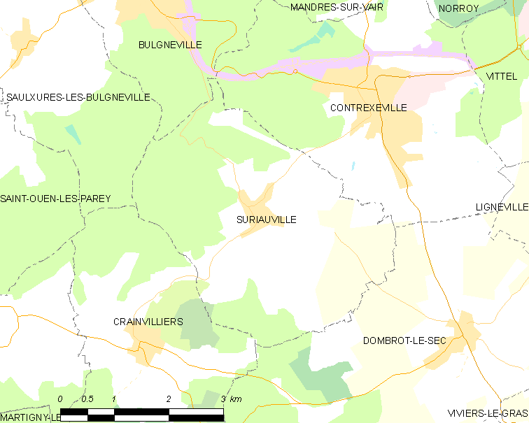 Map of French municipality Suriauville